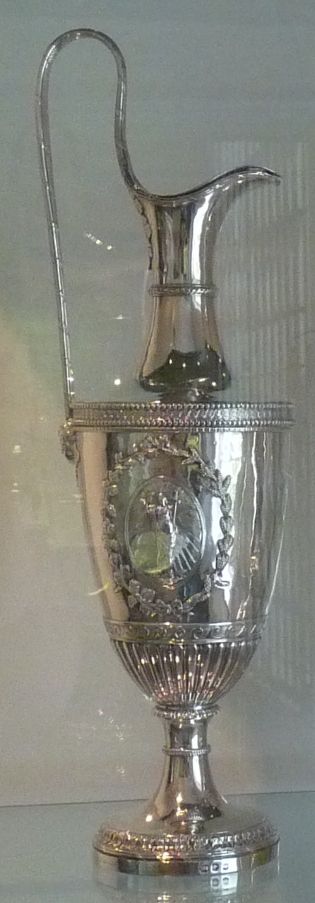 Flagon for a church made by Boulton & Fothergill, 1774, photographed at Soho House, Birmingham